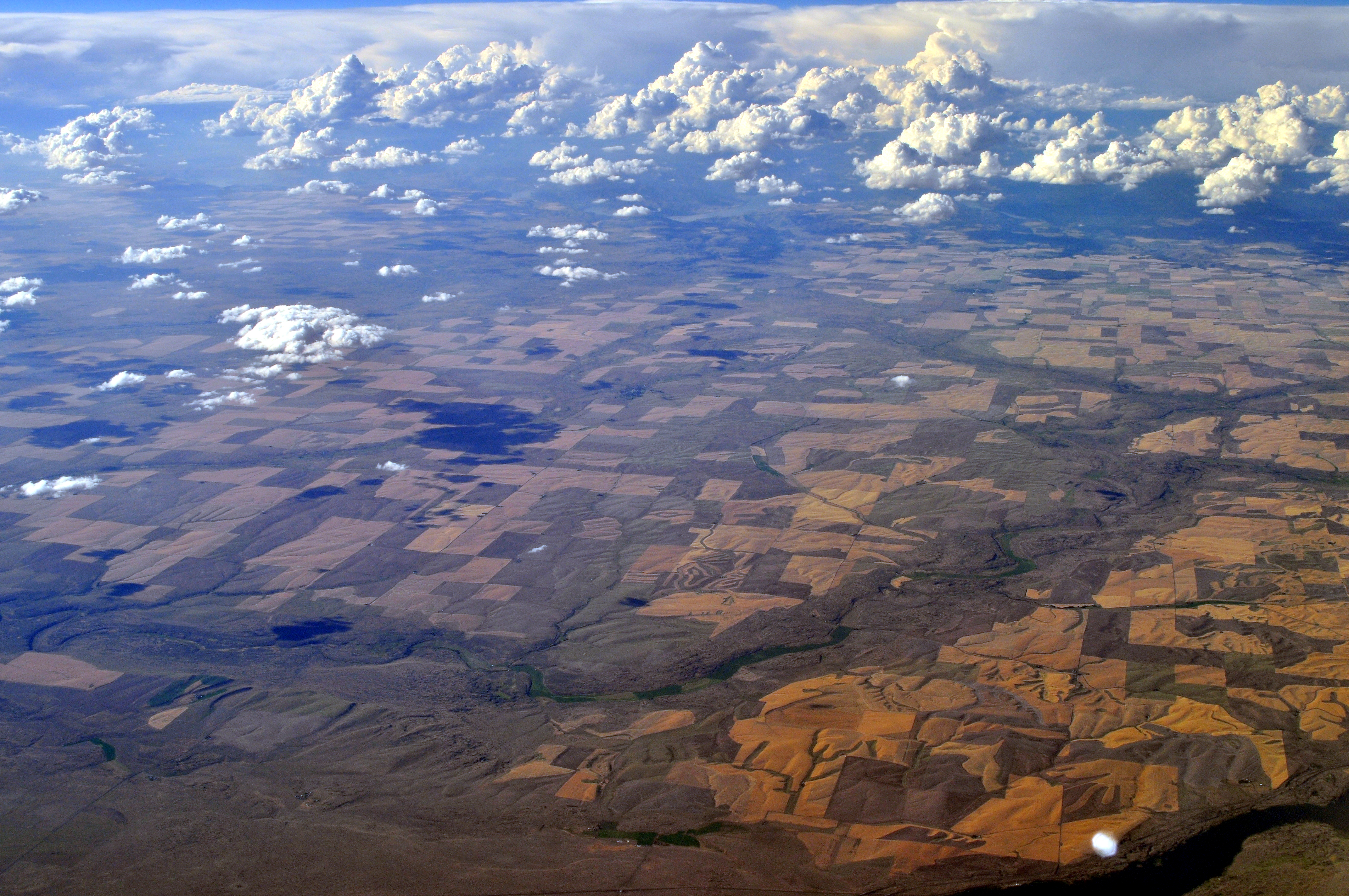 Aerial view of eastern Lincoln County, Washington, with part of Sprague Lake.